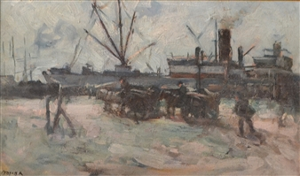 Harvesting